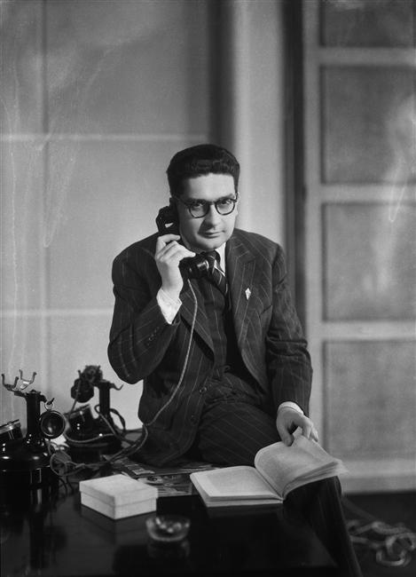 Studio photo